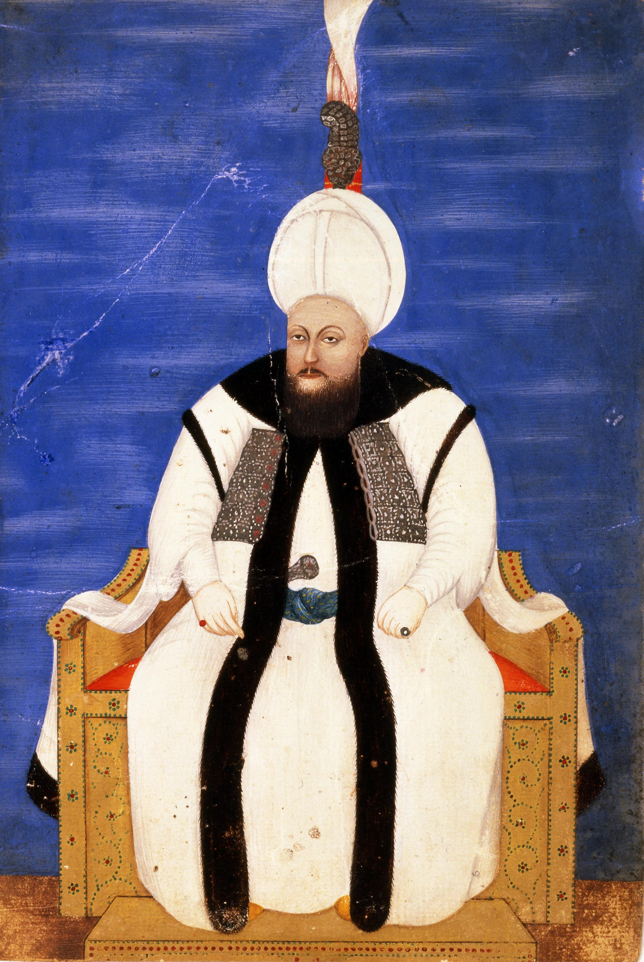 Mustapha III